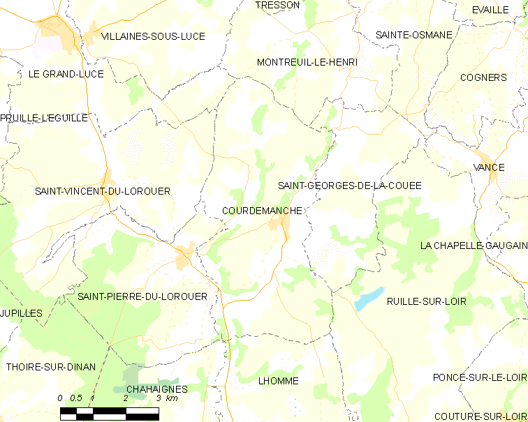 Map of French municipality